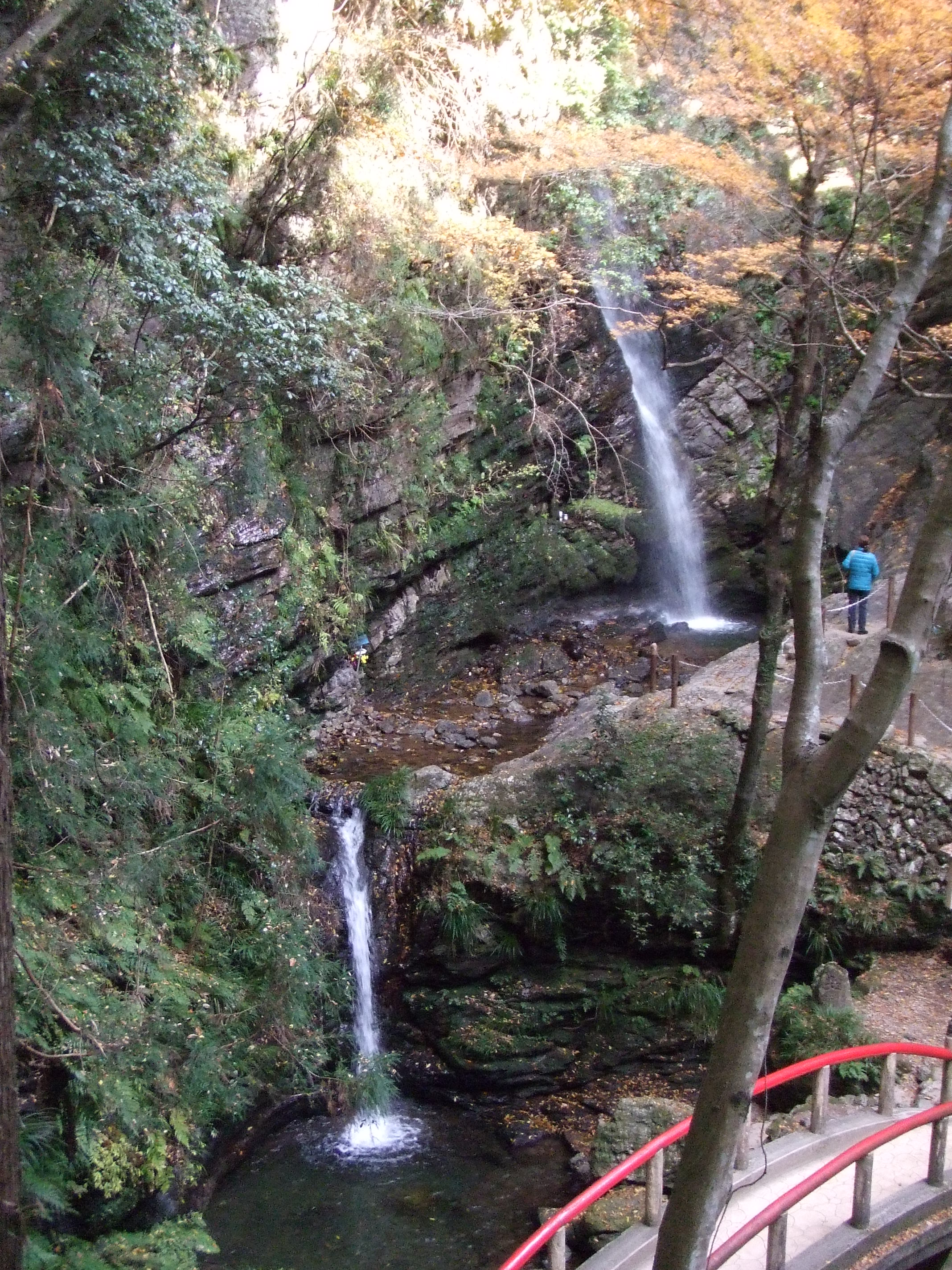 Kuroyama Three Waterfalls in Ogose Town, Saitama Prefecture, Japan